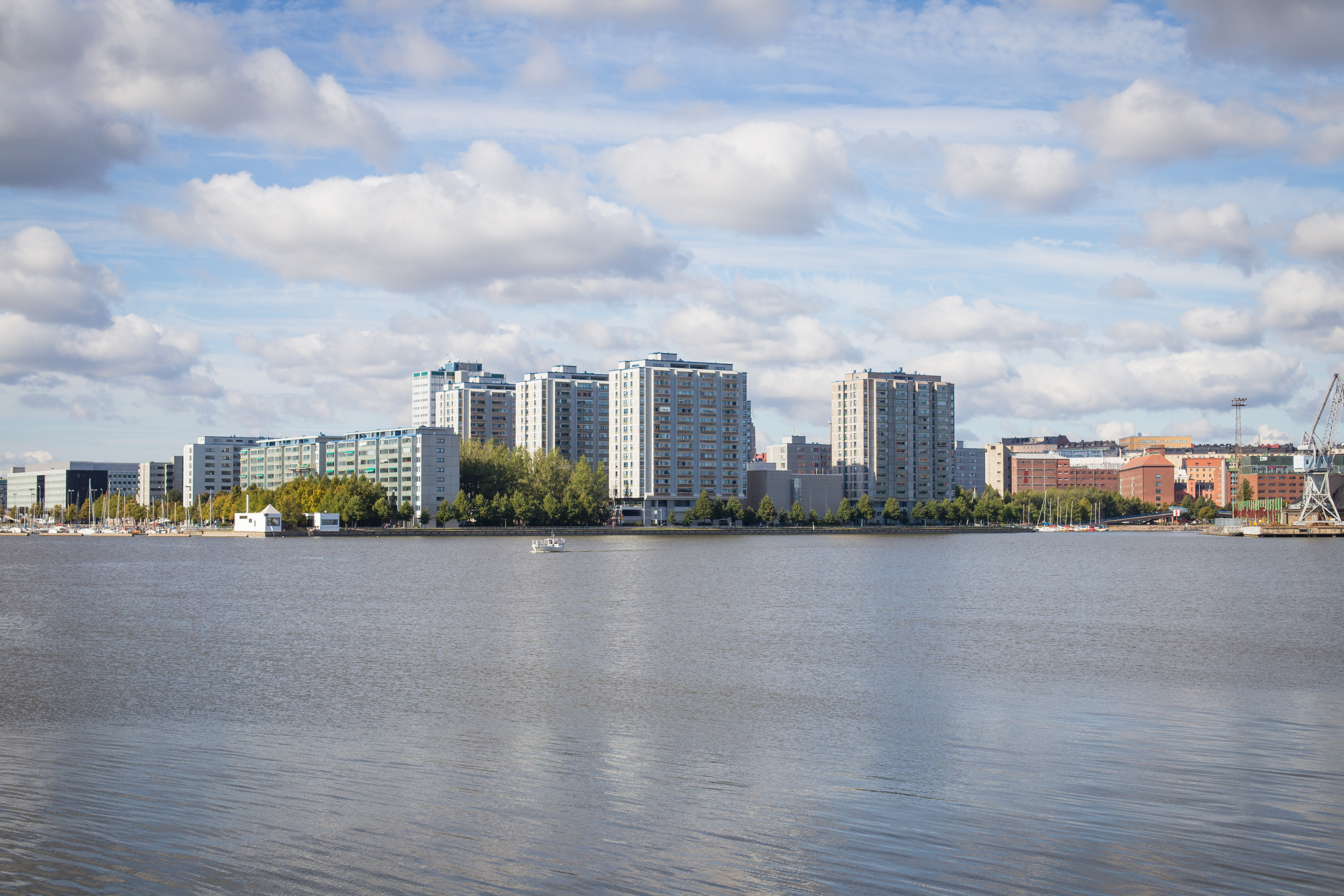 Merihaka from sompasaari